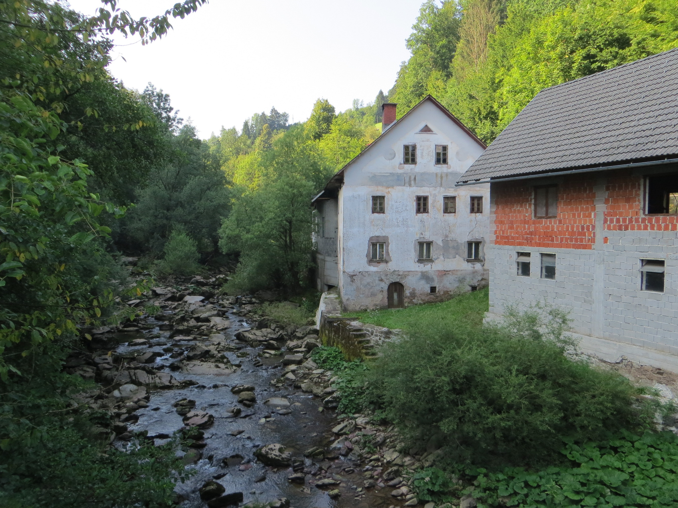 The Poljane Sora River in Fužine, Municipality of Gorenja Vas–Poljane, Slovenia